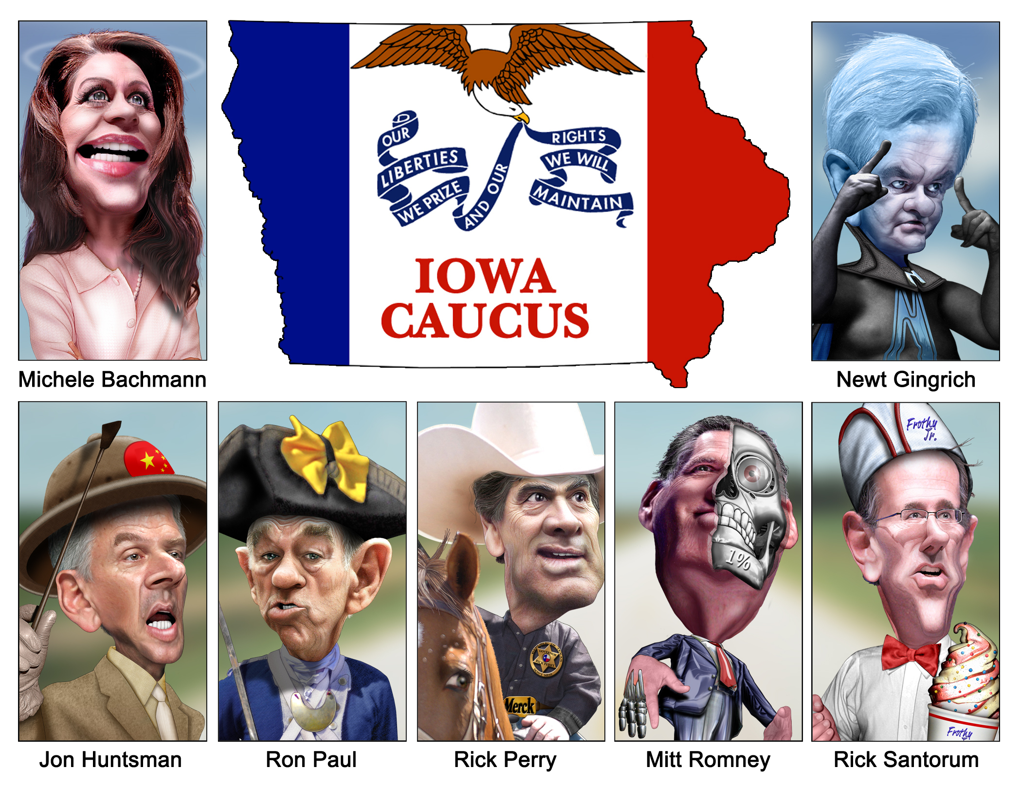 Iowa Caucus Characters Source photos for Iowa Causus Characters: Huntsman - CC from World Economic Forum's flickr photostream. Santorum - CC from Gage Skidmore's flickr photostream. Also a photo from the Library of Congress. Perry - CC from Robert Scoble's Flickr photostream and U.S. Army. Paul - CC from Gage Skidmore's flickr photostream and _Imaji_'s flickr photostream. Gingrich - CC from Gage Skidmore's flickr photostream. Romney - CC - from Gage Skidmore's Flickr photostream. Bachmann - Gage Skidmore's flickr photostream. NOTE: CC = Creative Commons licensed photo